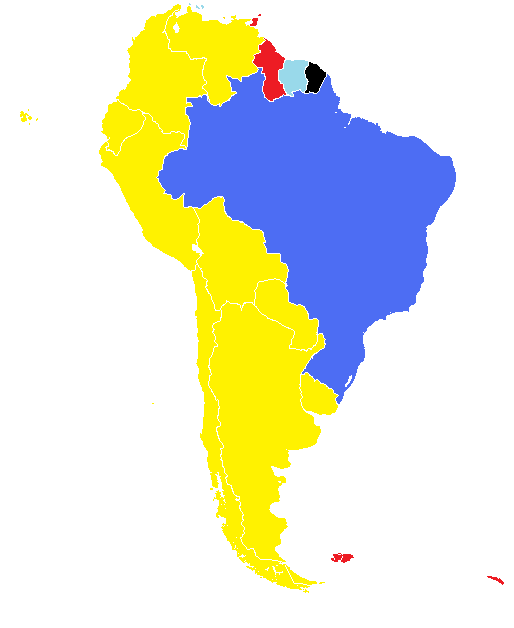 Languages ​​in South America with suitable colors for color-blind. Yellow: Spanish; Blue: Portuguese; Red: English; Celeste: Dutch; Black: French.